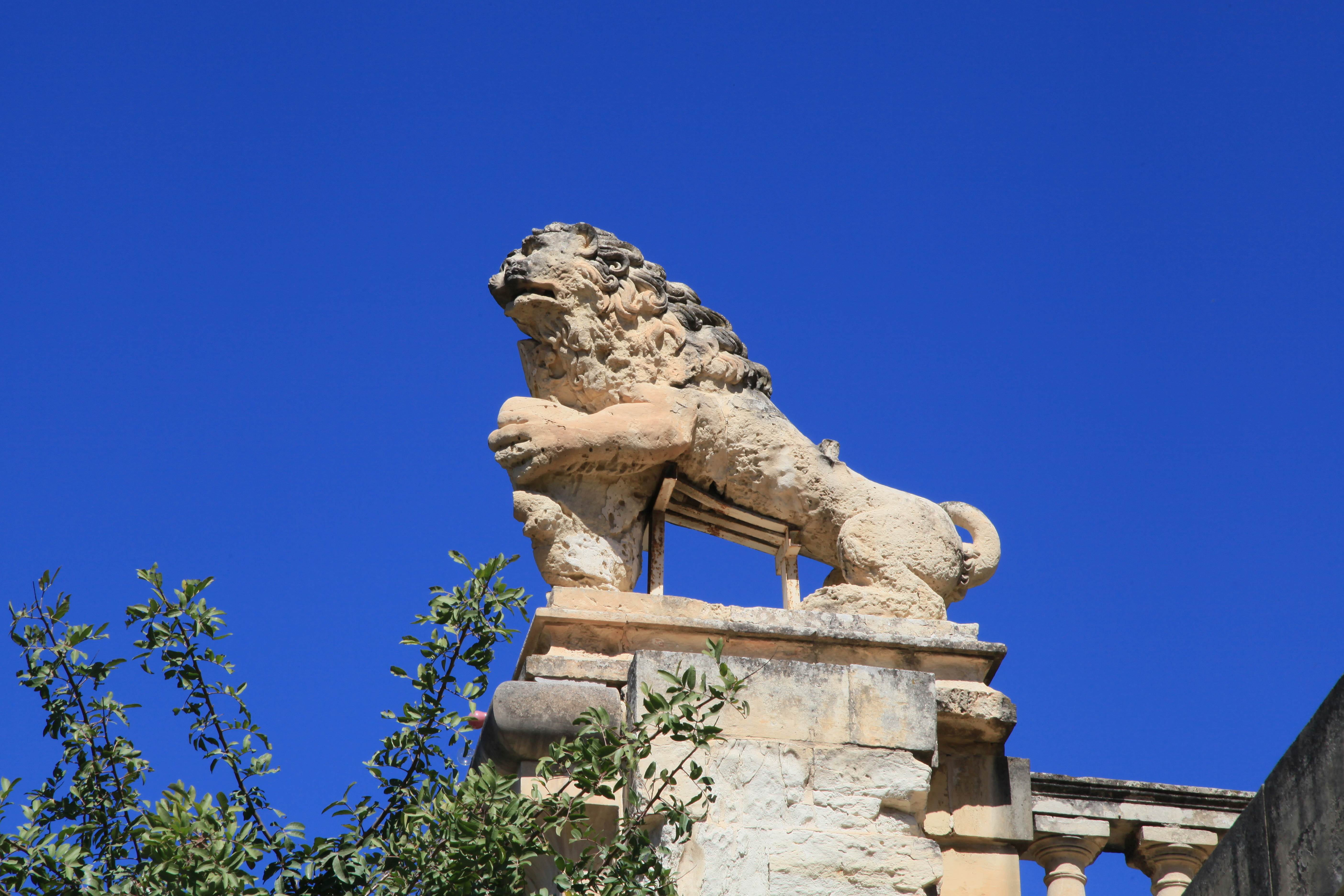 Casa Leoni at Triq il-Kbira San Ġużepp in Santa Venera, Malta